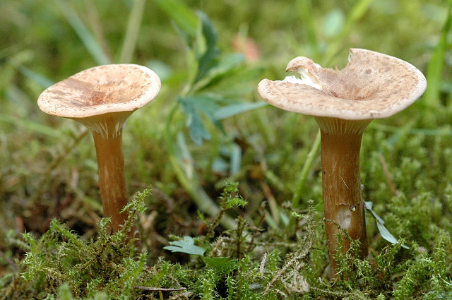 Clitocybe bresadolana from Commanster, Belgium. If you think this is a different taxon, please contact James Lindsey.